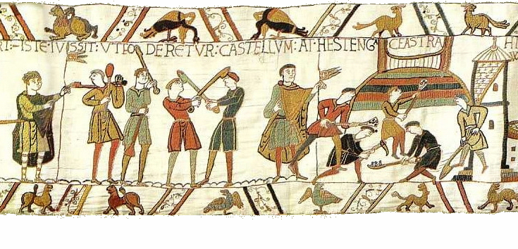 Bayeux Tapestry. Scene 45